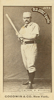 Major League Baseball player Pud Galvin